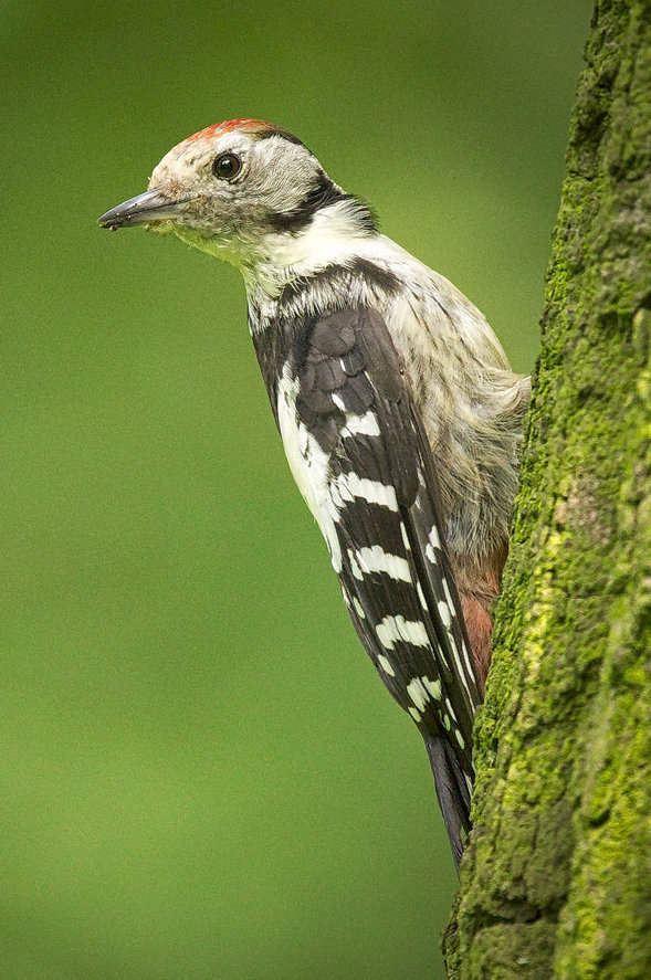 Middle spotted woodpecker